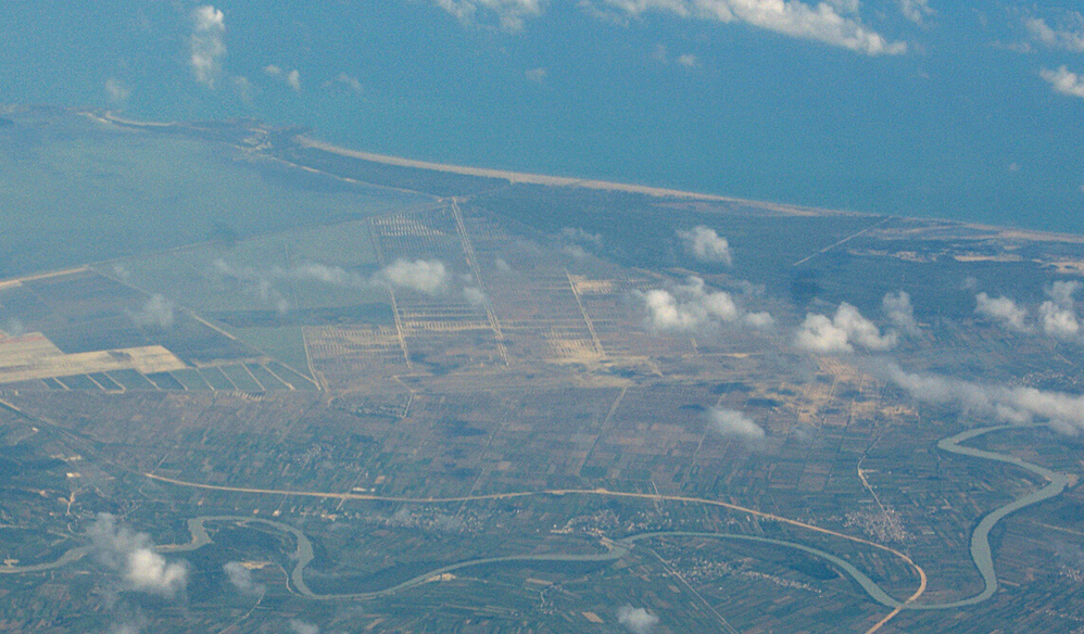 Narta Lagoon, Vlorë County, Southern Albania. New highway under construction